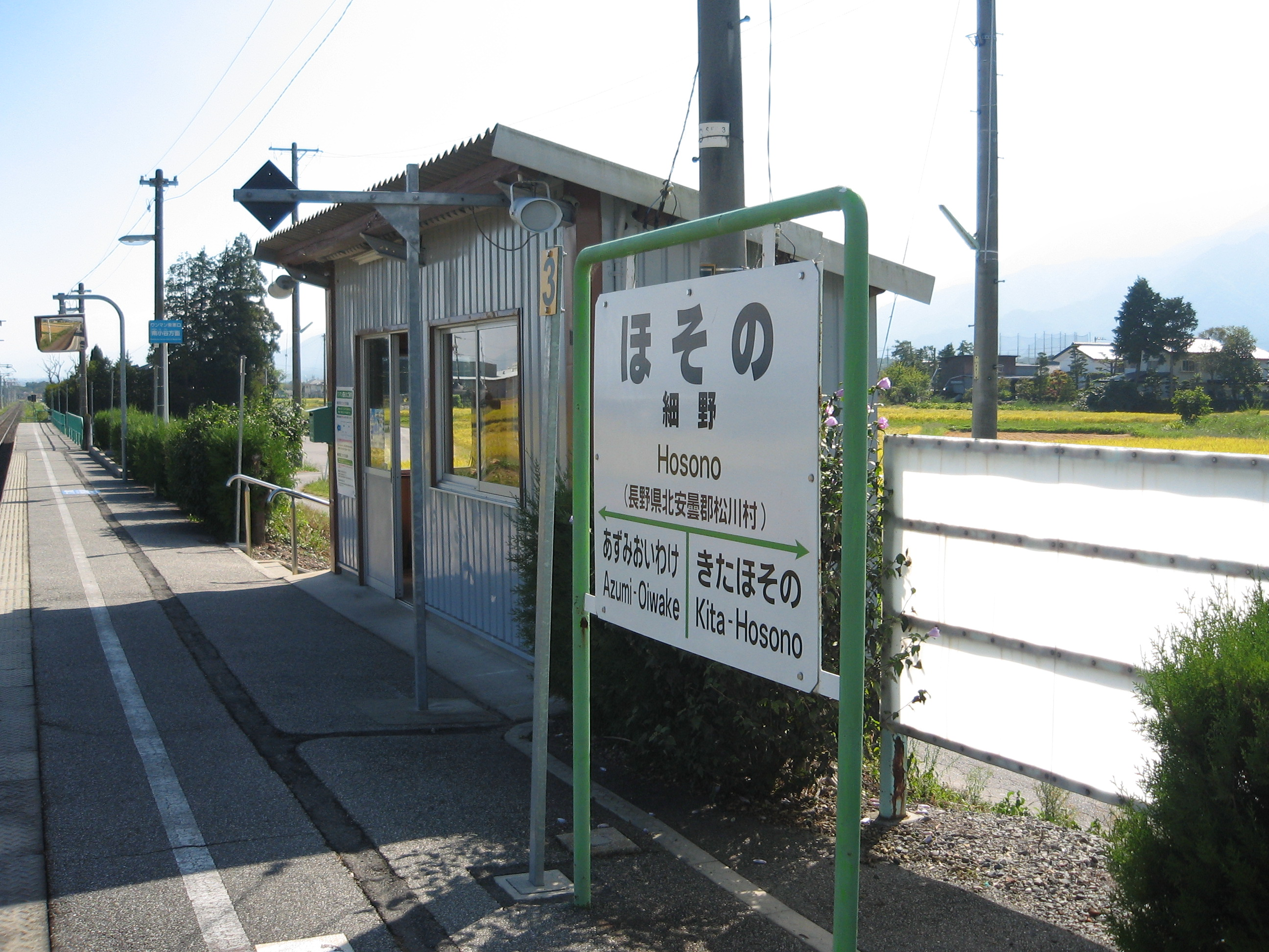 Hosono Station of East Japan Railway (JR East)